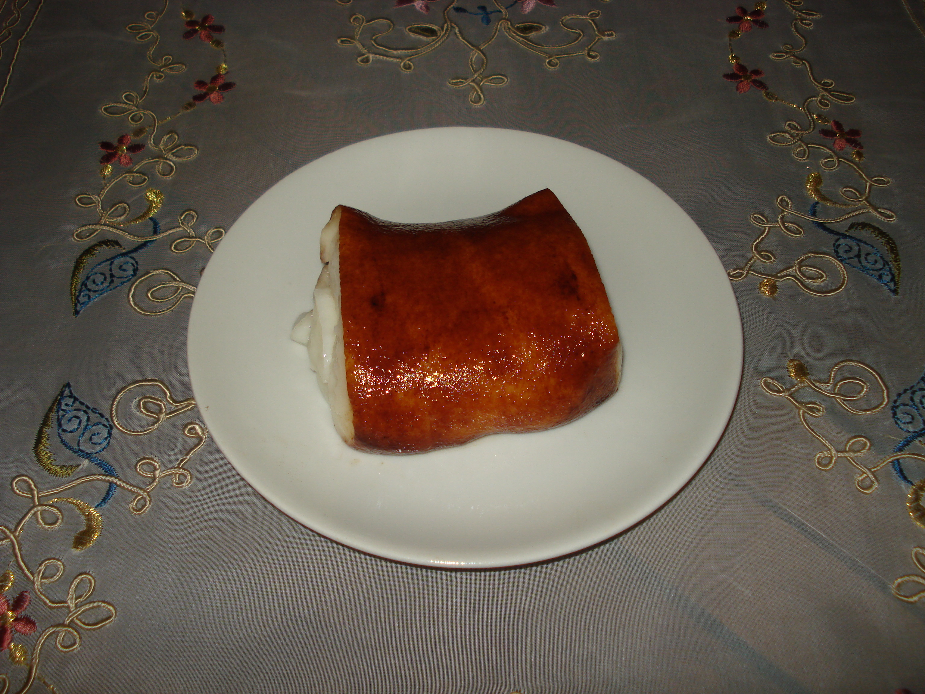 Kazandibi, a kind of milky dessert from Turkish cuisine